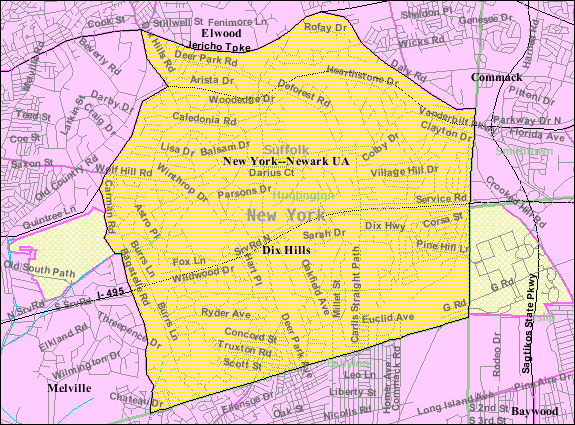 U.S. Census 2000 reference map for Dix Hills